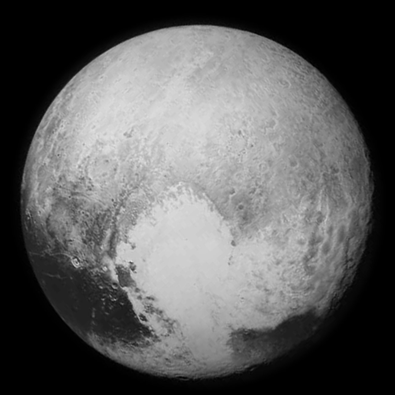 PLUTO - NEW HORIZONS - JULY 13, 2015 - Black & White IMAGE CAPTION: Pluto nearly fills the frame in this black and white image from the Long Range Reconnaissance Imager (LORRI) aboard NASA’s New Horizons spacecraft, taken on July 13, 2015 when the spacecraft was 476,000 miles (768,000 kilometers) from the surface. This is the last and most detailed image sent to Earth before the spacecraft’s closest approach to Pluto on July 14.